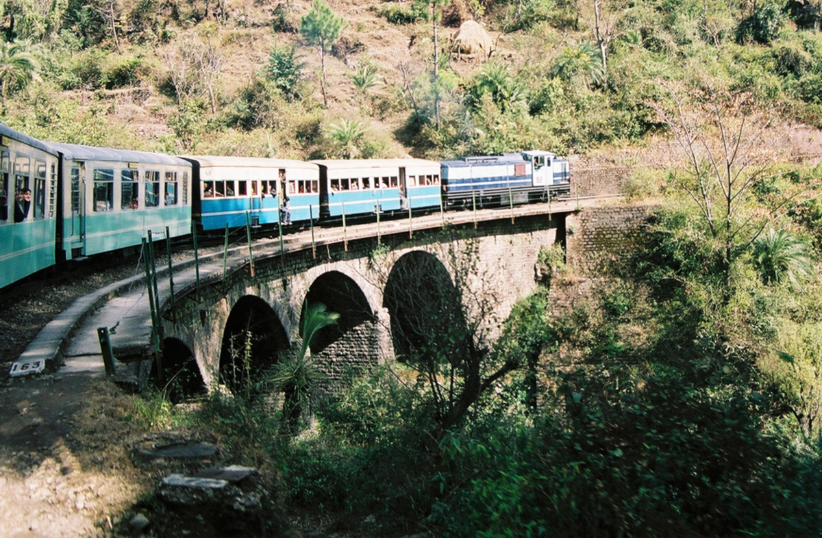 Kalka-Simla Railway. A typical passenger train on one of the smaller bridges. The locomotive is YDM3 No.182. 12th February 2005 Photographer - A.M.Hurrell Camera - Minolta X700 (35mm film) Modified - Scanned by film developer. File size and definition changed using Adobe Photoshop 5.0LE